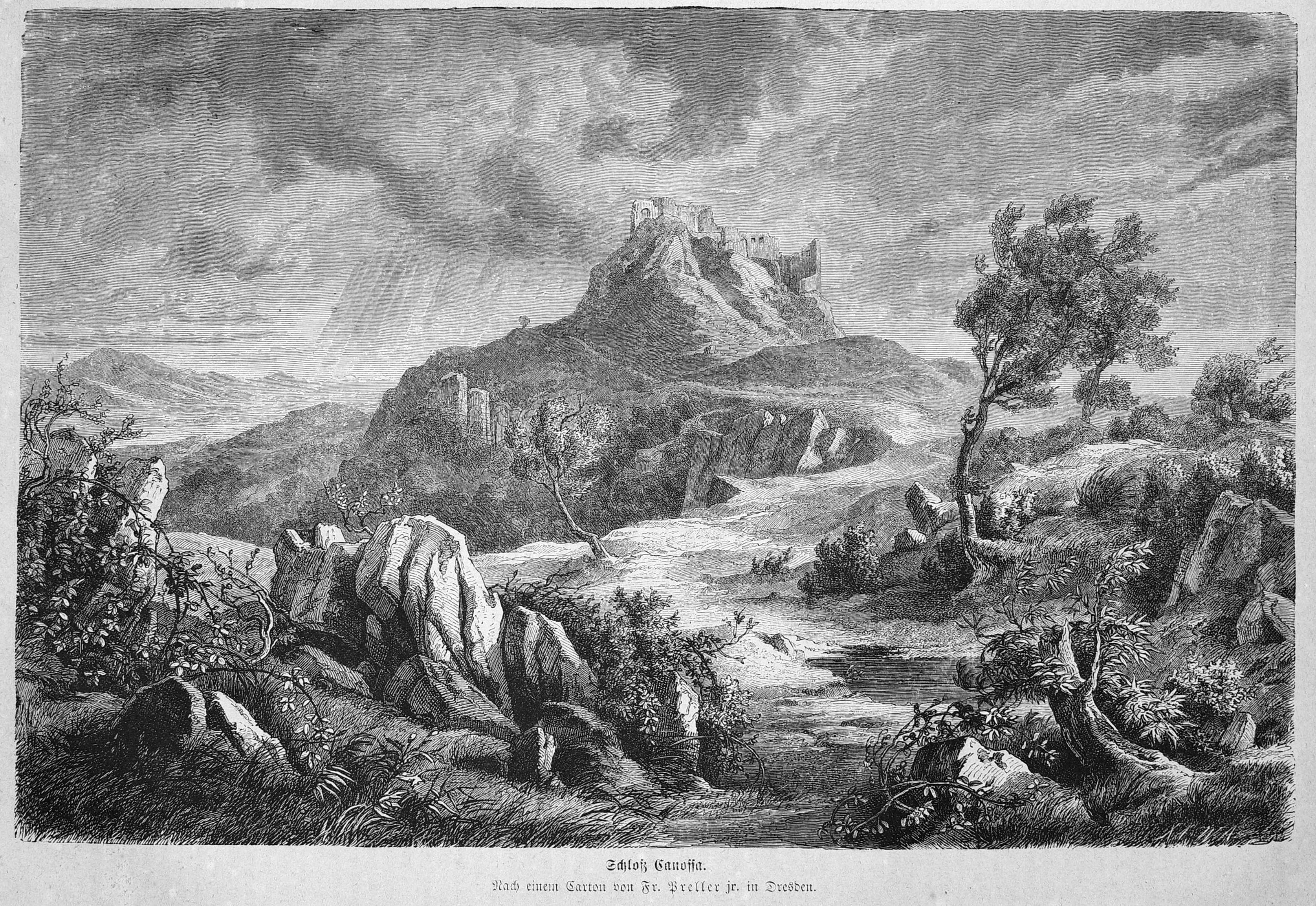 caption: "Schloß Canossa. Nach einem Carton von Fr. Preller jr. in Dresden."